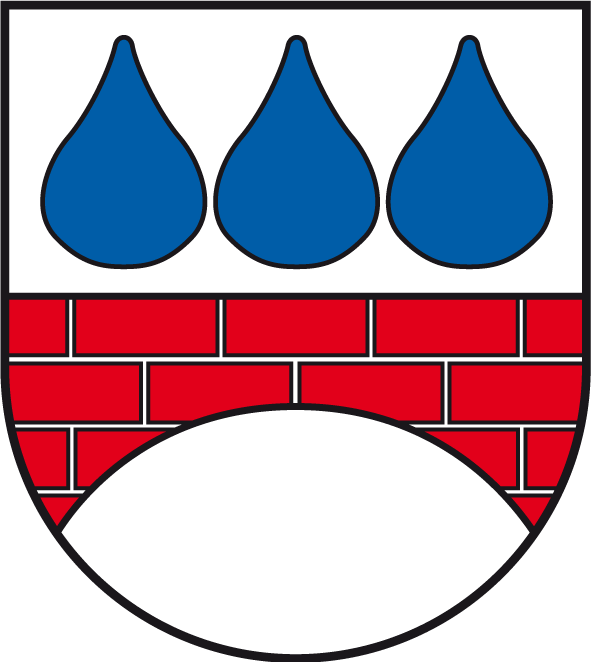 Coat of Arms of VG Allerquelle